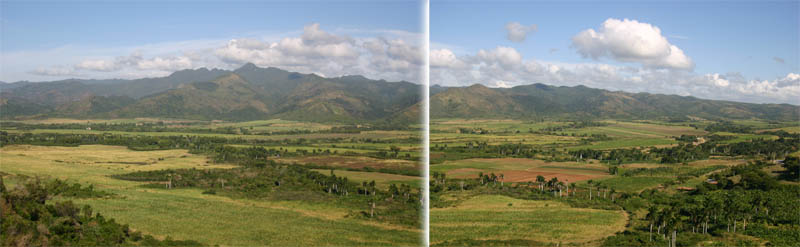 Wilder's stock, Cuba